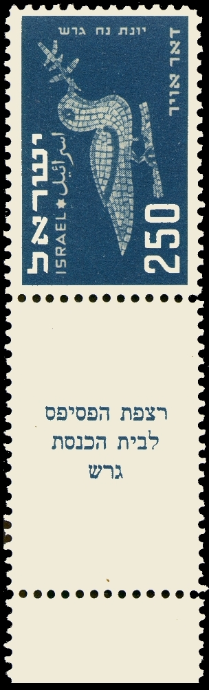 Airmail 1950 stamp- 250 mil, First definitive series. Inscription: "Noah's dove from Jerash". Inscription on tab: "Mosaic floor of the synagogue at Jerash".